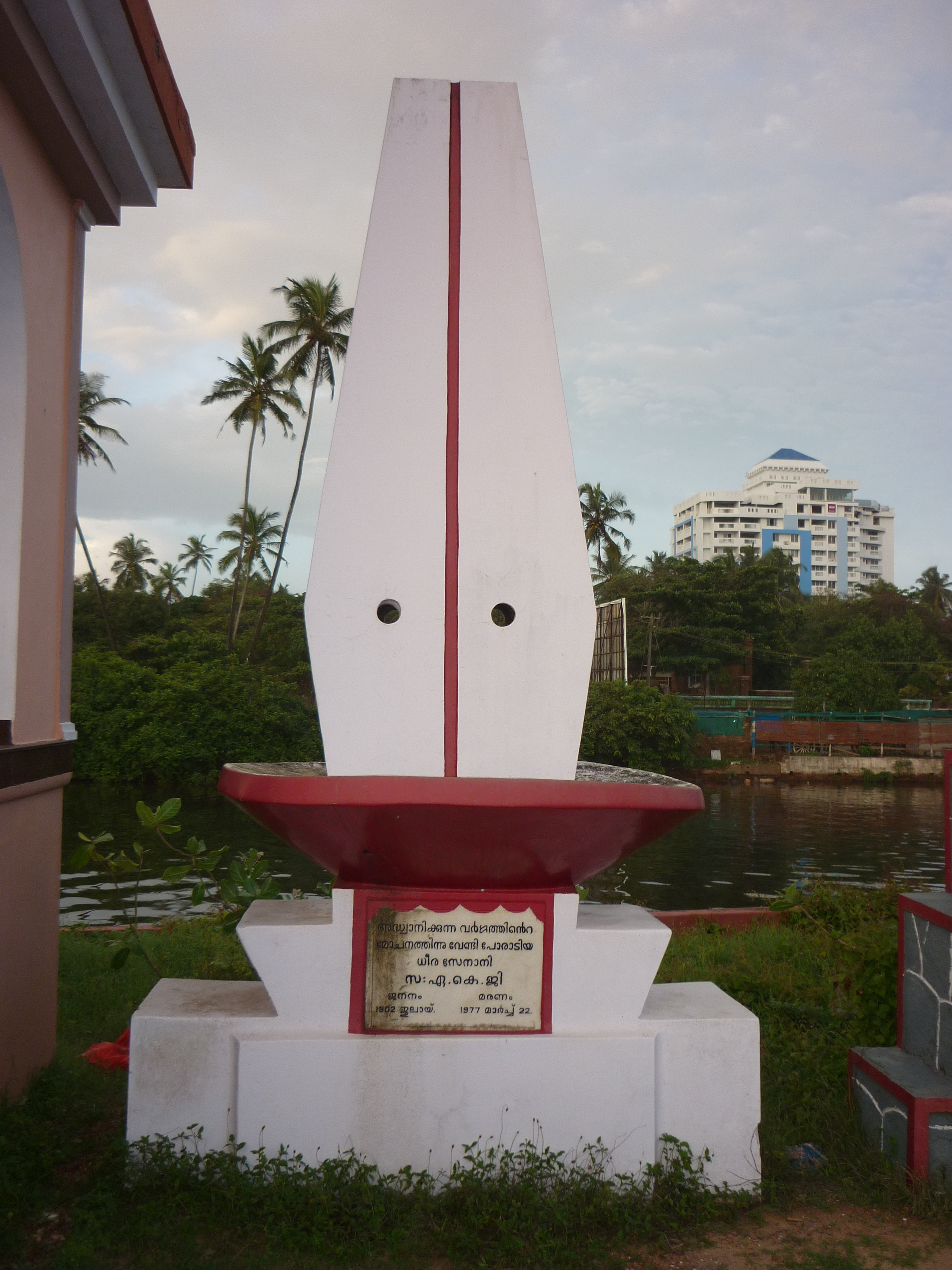 akg smrithi mandapam